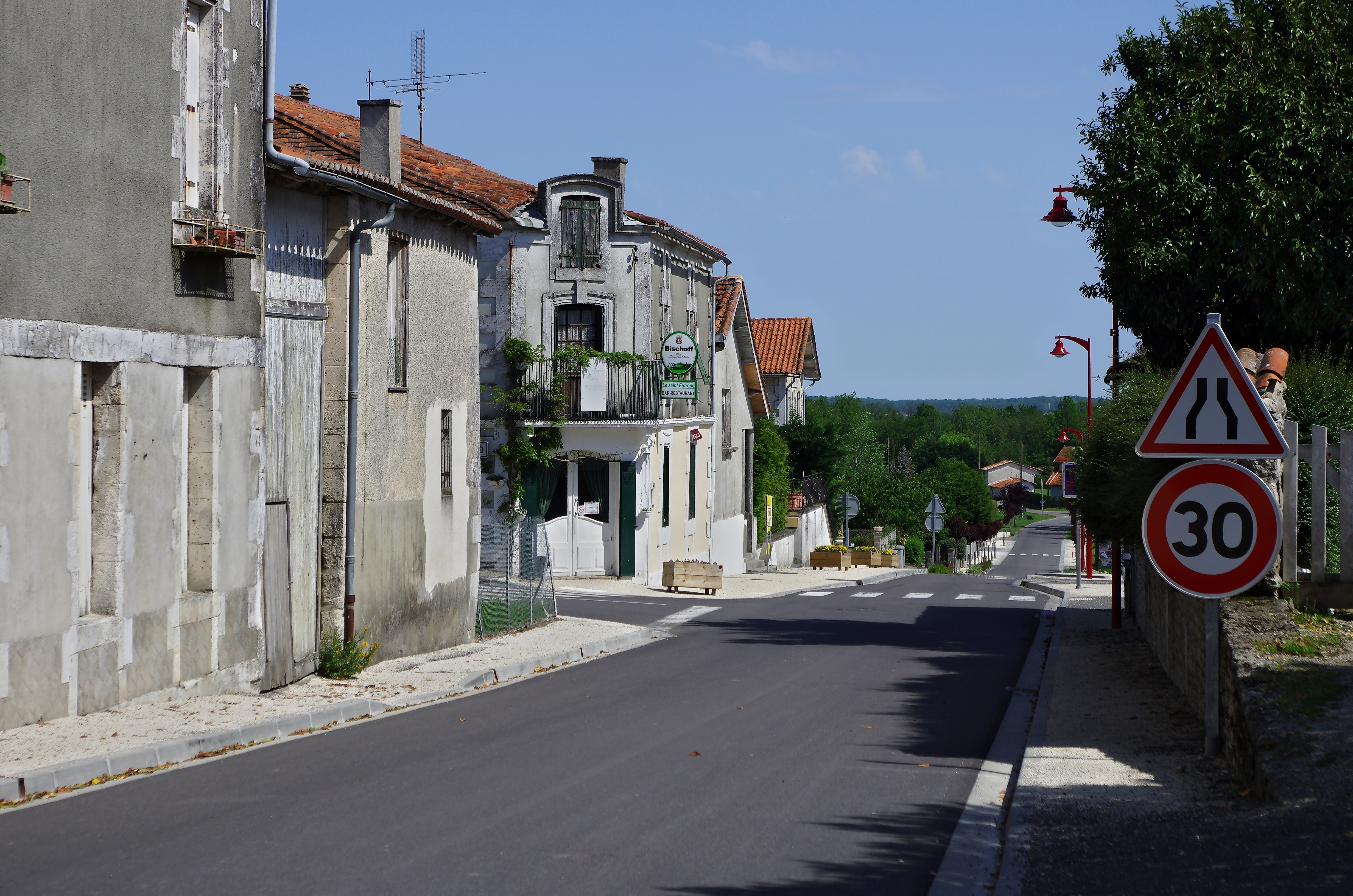 Main street of a French village : Saint-Eutrope, Charente, France